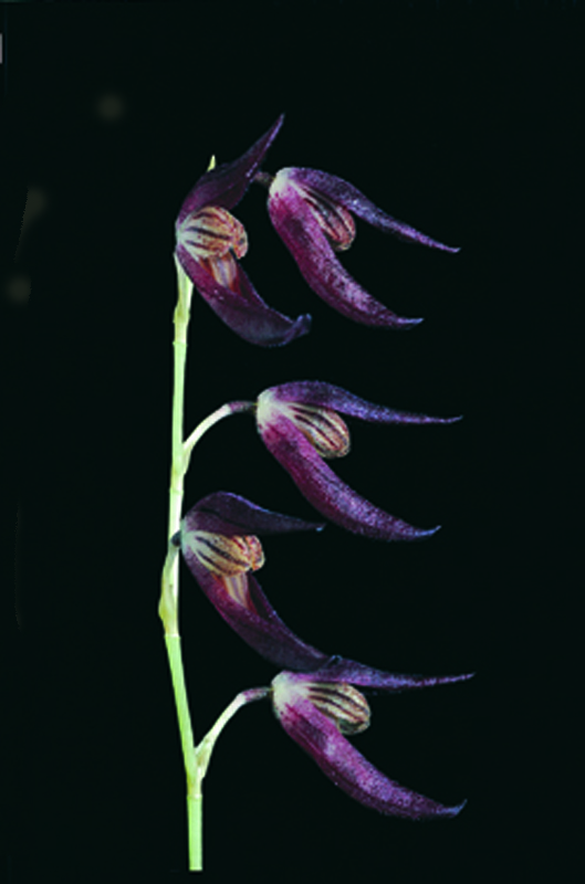 Dracontia tuerckheimii